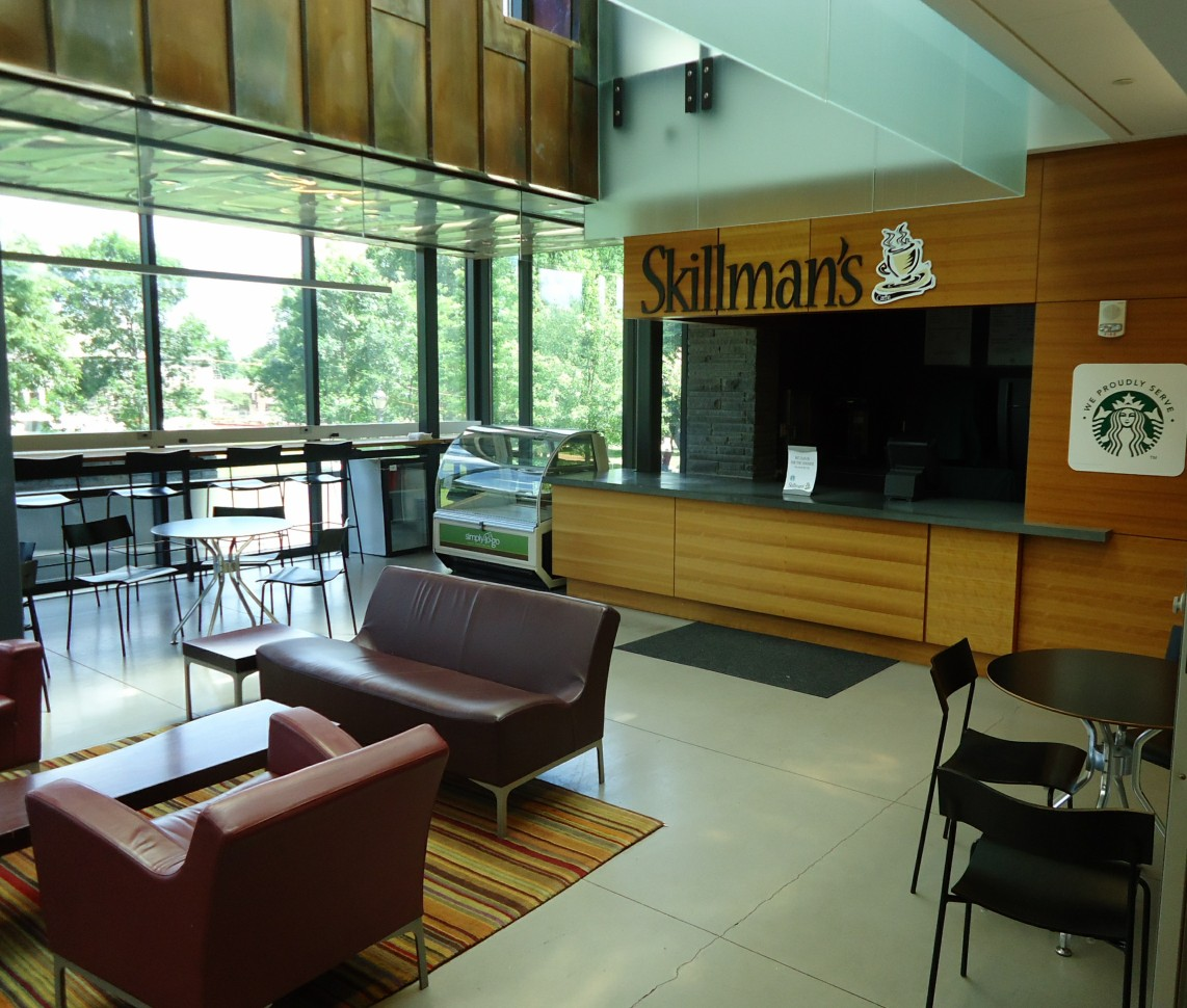 A photo from a campus tour of Lafayette College in Easton, Pennsylvania, on May 31, 2012 (correct date; 2011-06-01 is incorrect).